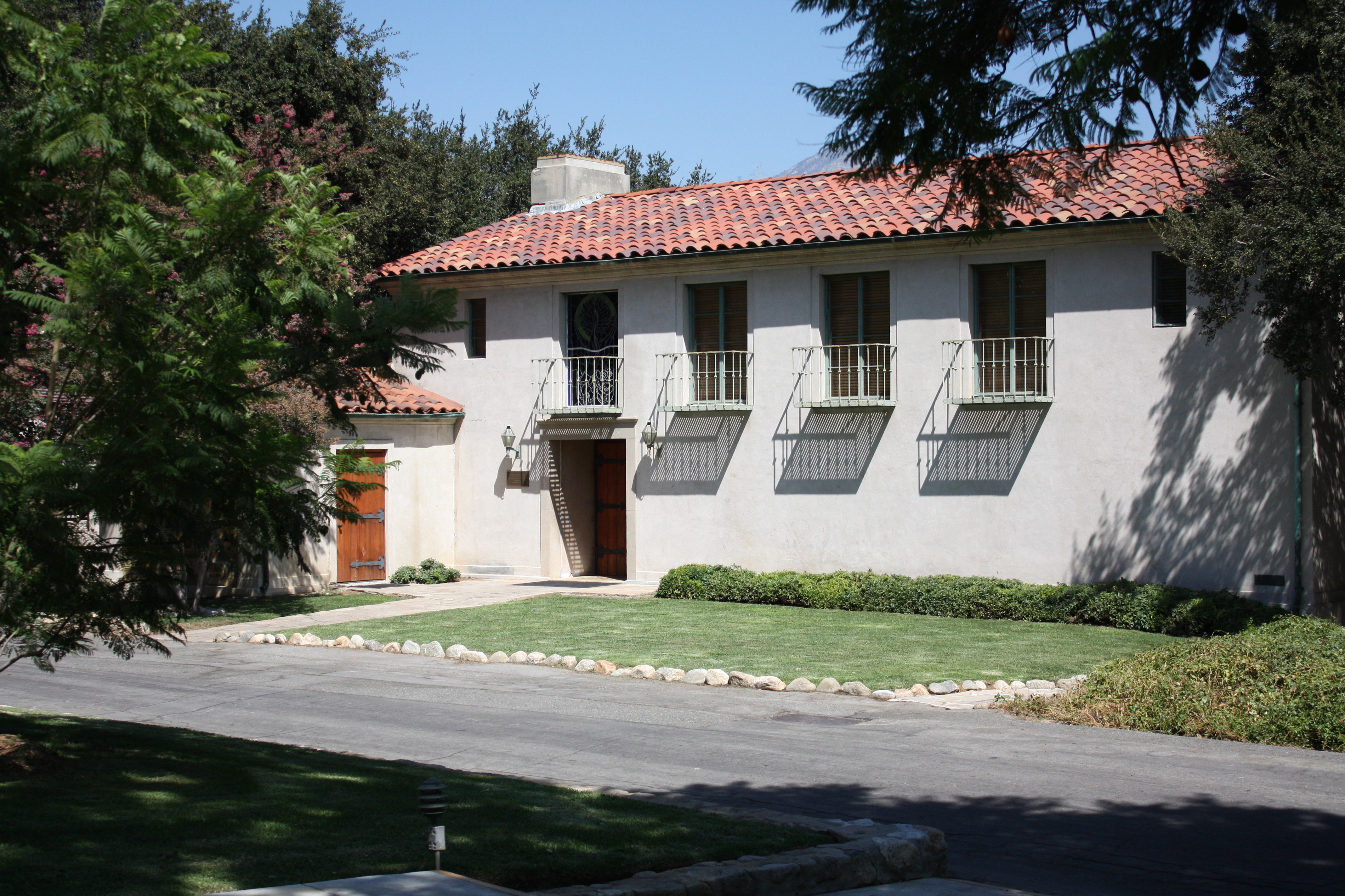 This photo shows the exterior of the Jackson Library located on The Webb Schools campus, Claremont, CA.